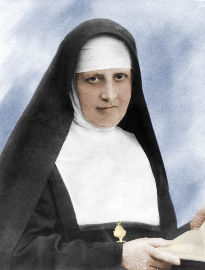 A picture of the servant of the Lord Mother Teresa Nuzzo